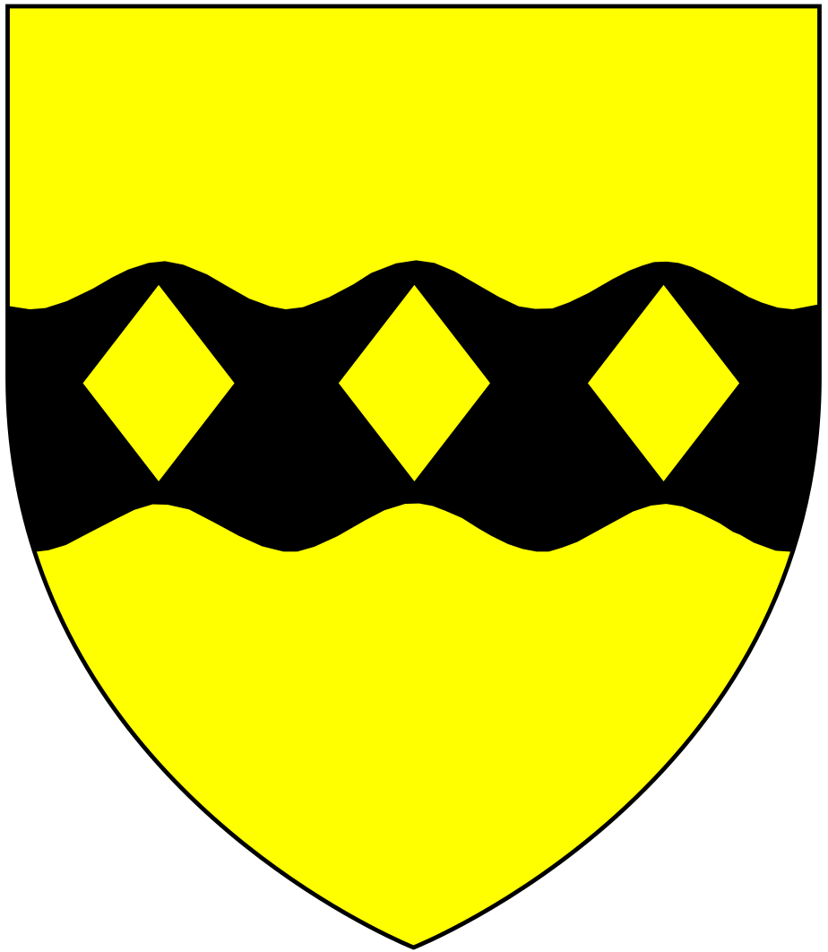 Arms of Duck family of Heavitree and Mount Radford, Exeter, Devon: Or, on a fess wavy sable three lozenges of the field (Vivian, Lt.Col. J.L., (Ed.) The Visitation of the County of Devon: Comprising the Heralds' Visitations of 1531, 1564 & 1620, Exeter, 1895, p.309) alternative blazon: Or, on a fess undee sable three fusils or (Pole, Sir William (d.1635), Collections Towards a Description of the County of Devon, Sir John-William de la Pole (ed.), London, 1791, p.480)